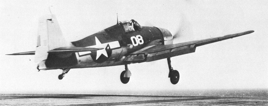 A U.S. navy Grumman F6F Hellcat from Fighting Squadron 80 (VF-80) is launched from the aircraft carrier USS Ticonderoga (CV-14) in 1944.